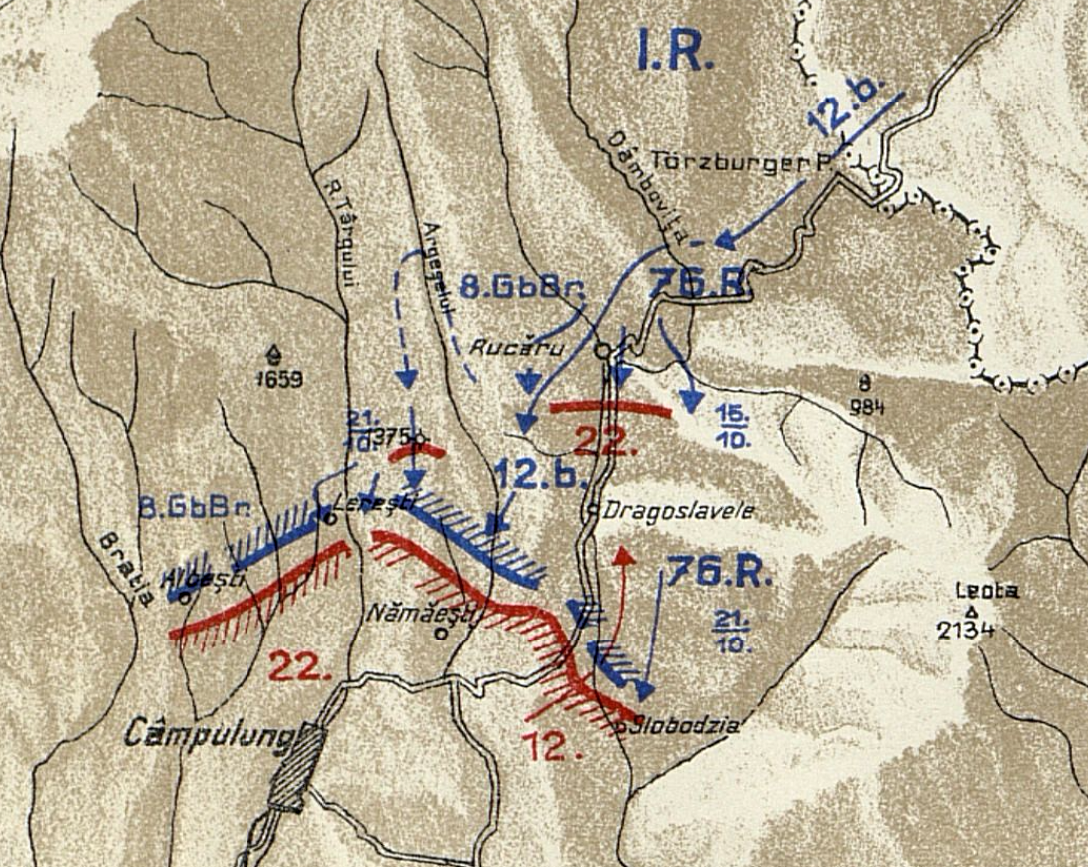 Romanian Front in WWI - The battle of Bran-Câmpulungi, 1916